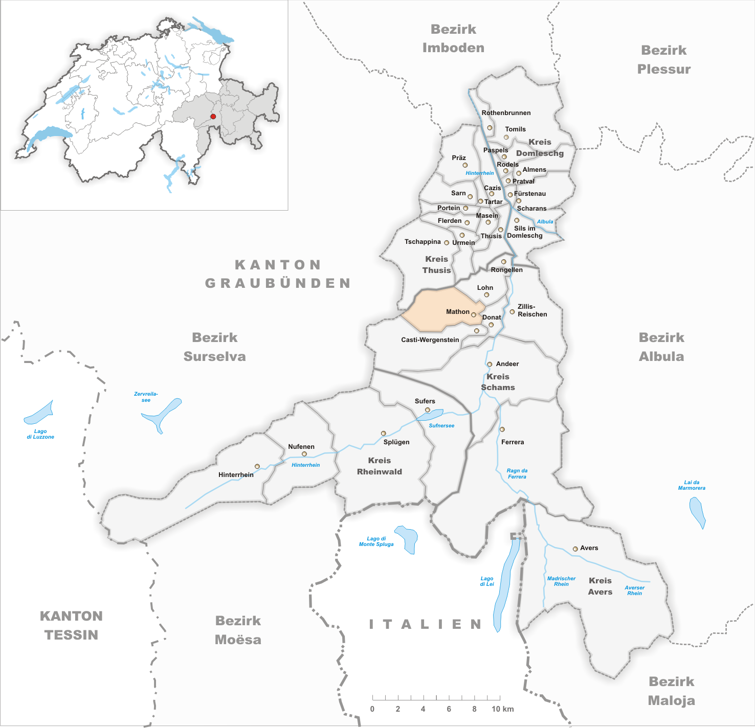 Municipality Mathon